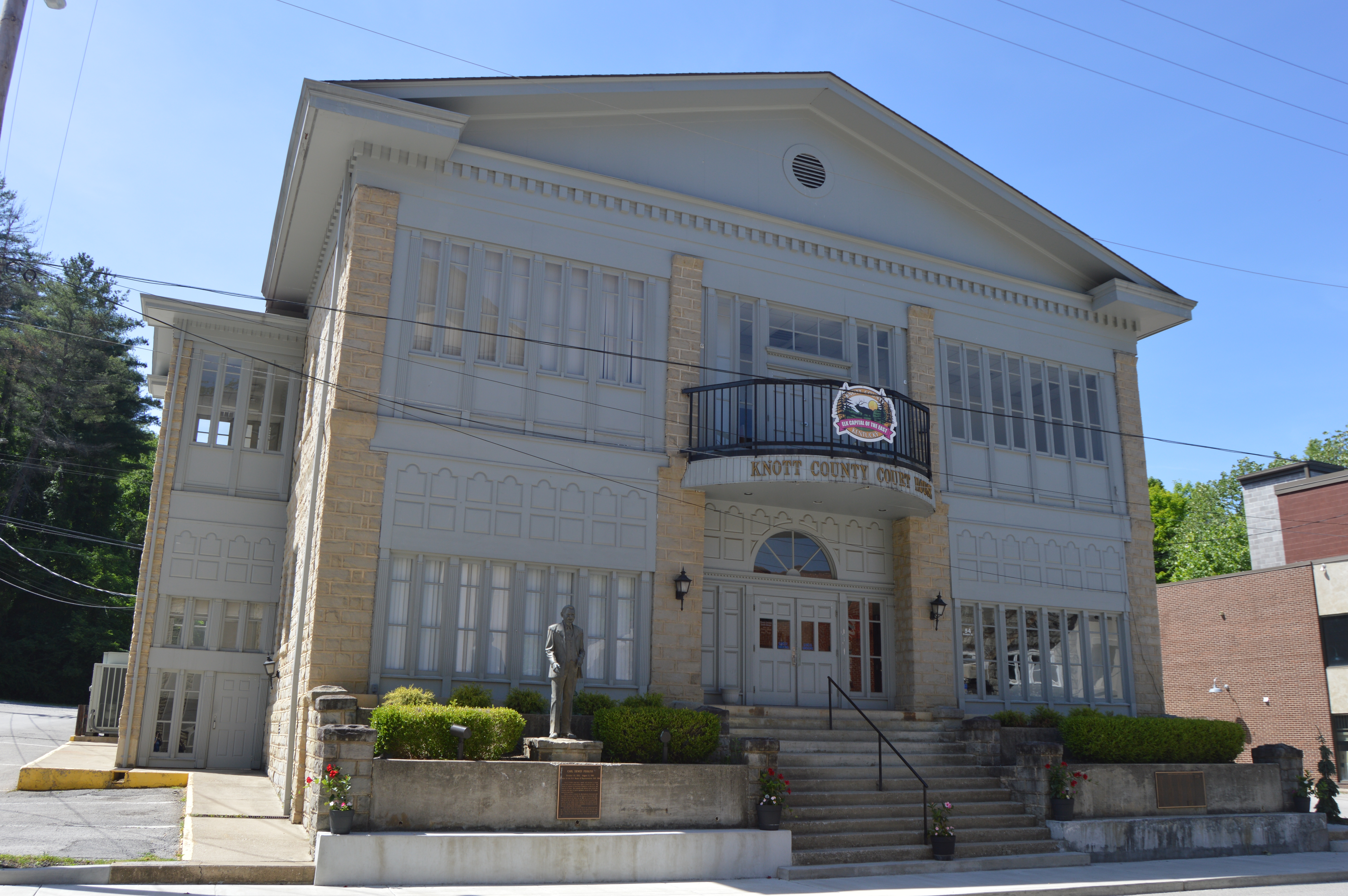 Front and southern side of the Knott County Courthouse, located on Main Street (Kentucky Route 550) in downtown Hindman, Kentucky, United States. It was built in 1936 and later extensively modified.